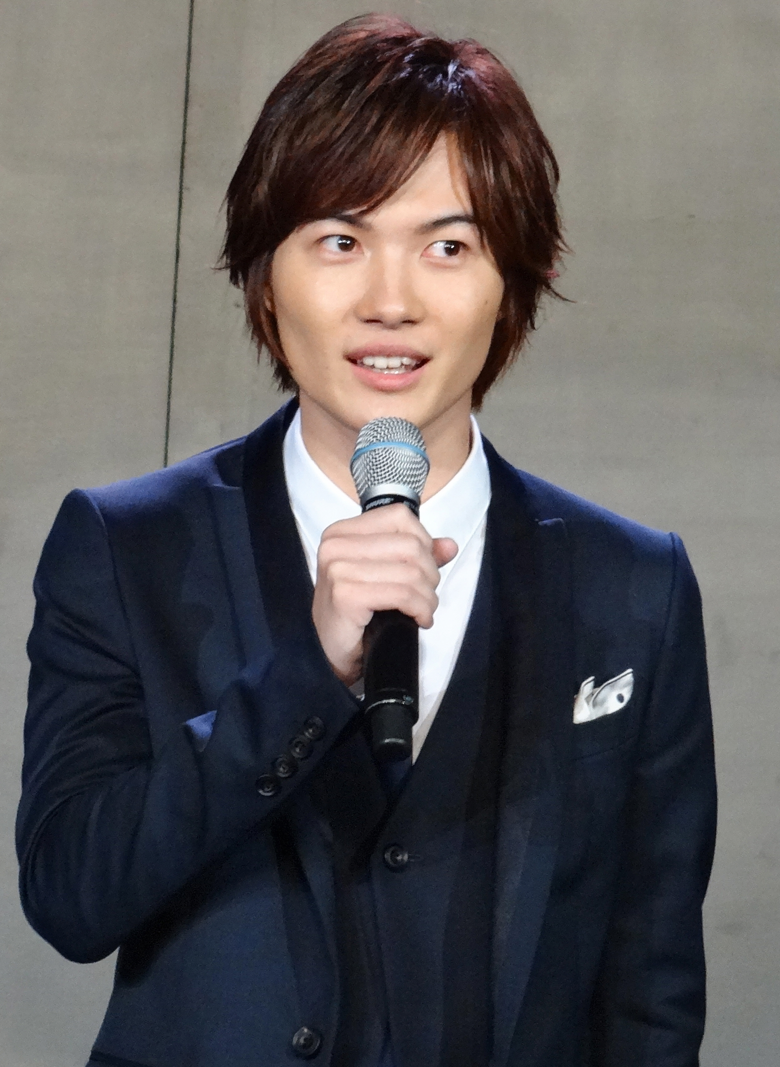 Rurouni Kenshin: Kyoto Inferno / The Legend Ends, Red Carpet Premiere: Kamiki Ryunosuke